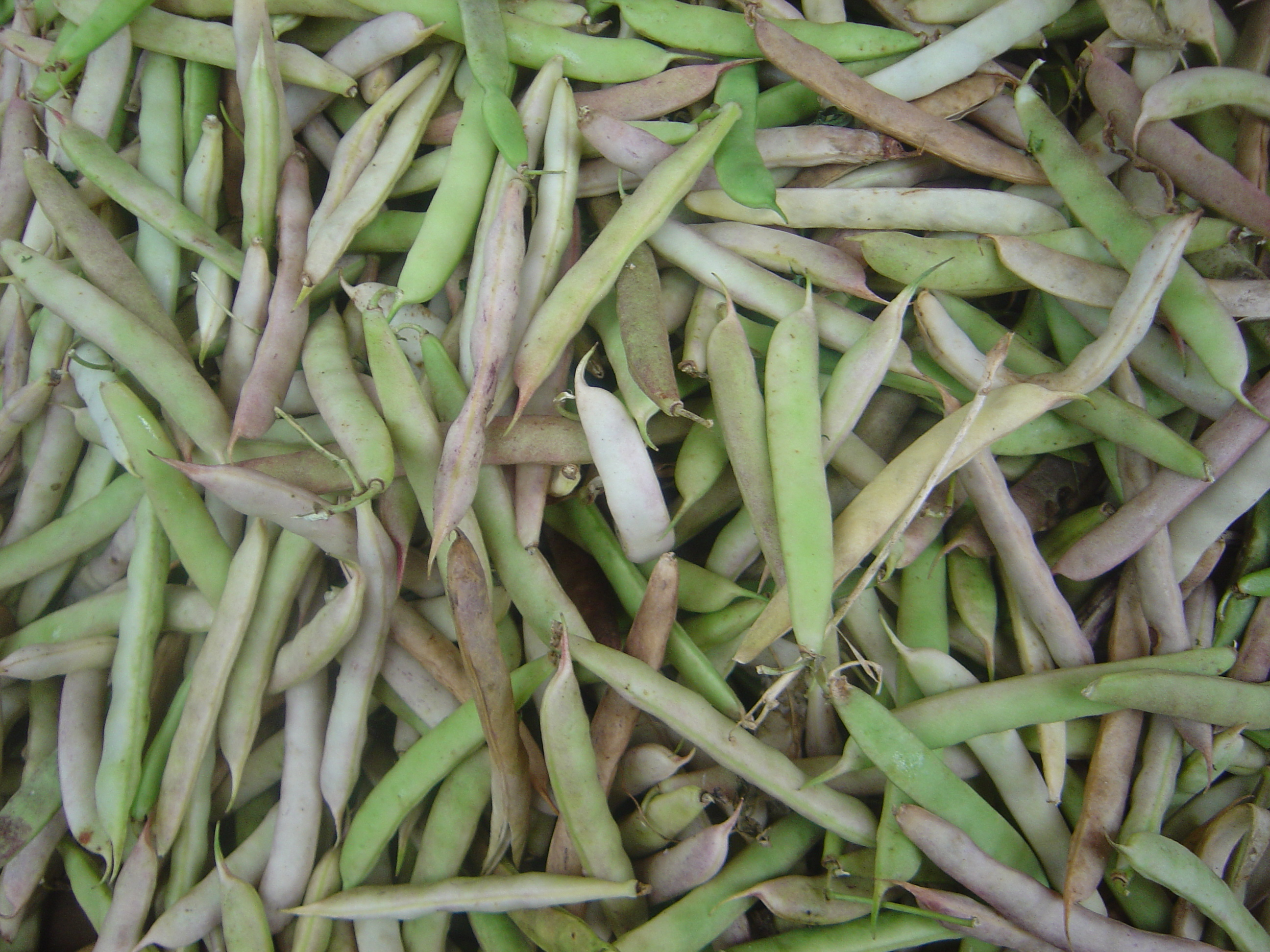 Some beans sold on Réunion Island. Unknown variety.